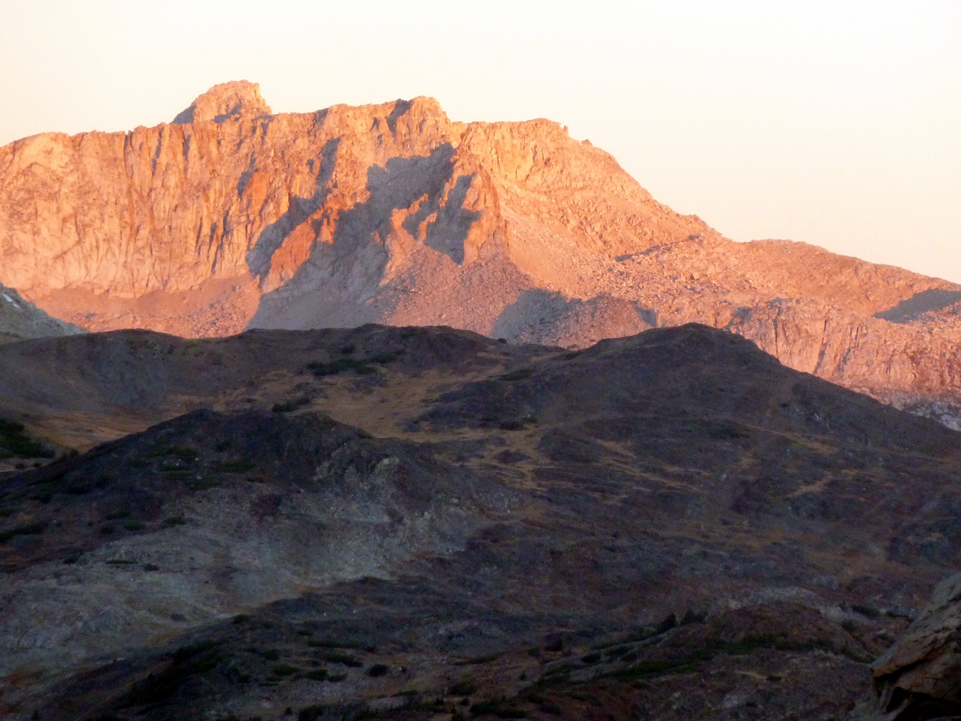 Tioga Peak, just outside Yosemite, near Tioga Pass